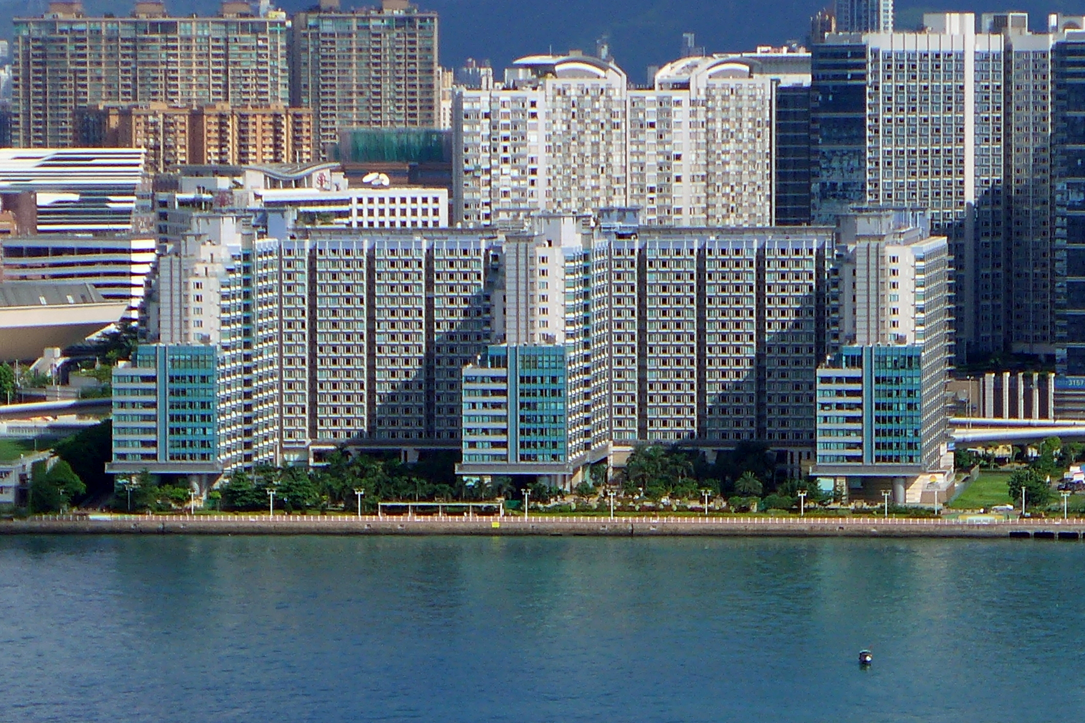 Harbourfront Horizon